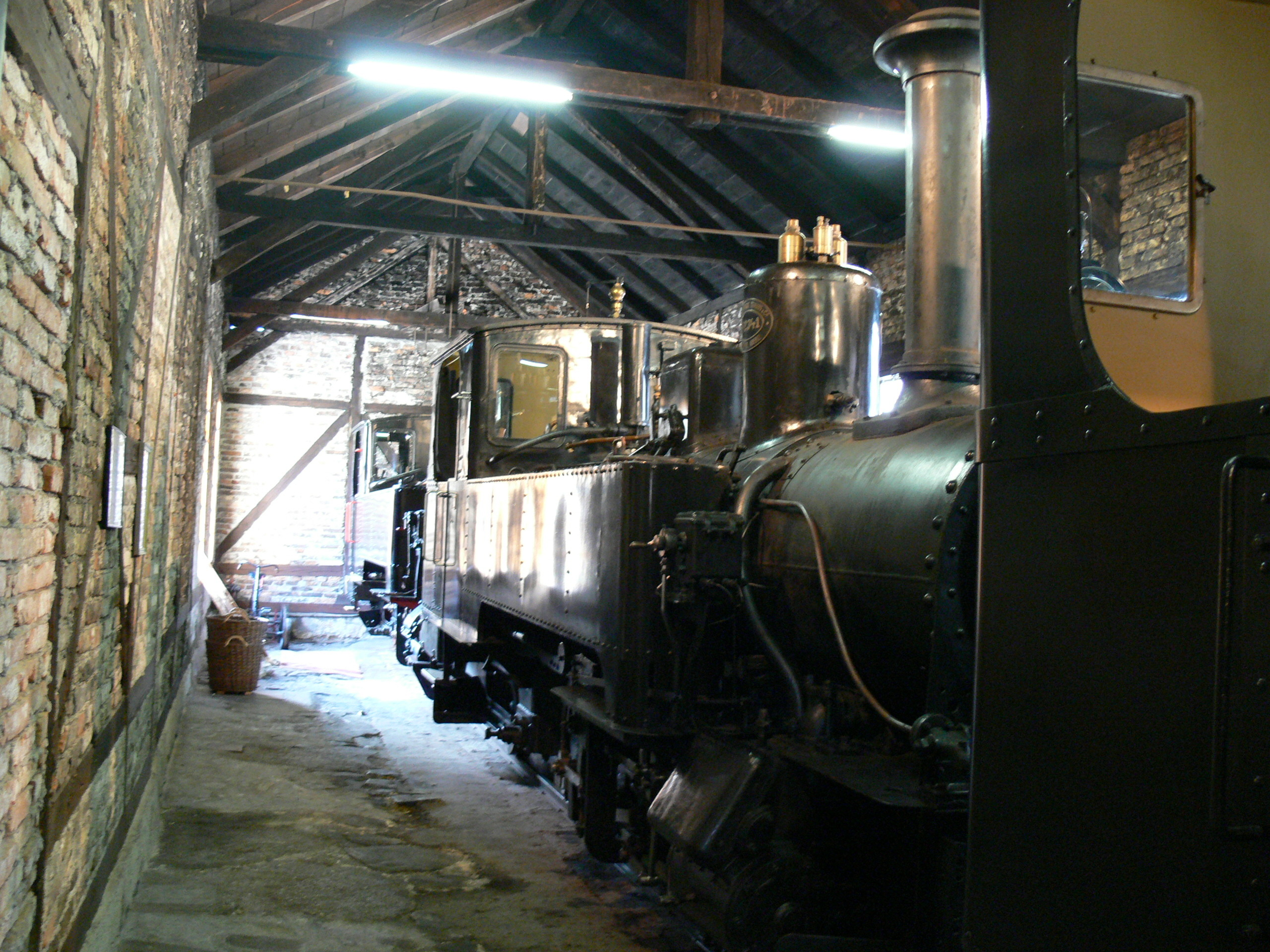 SKGLB Museum Mondsee. Old steam locomotives of the Salzkammergut - Local train.